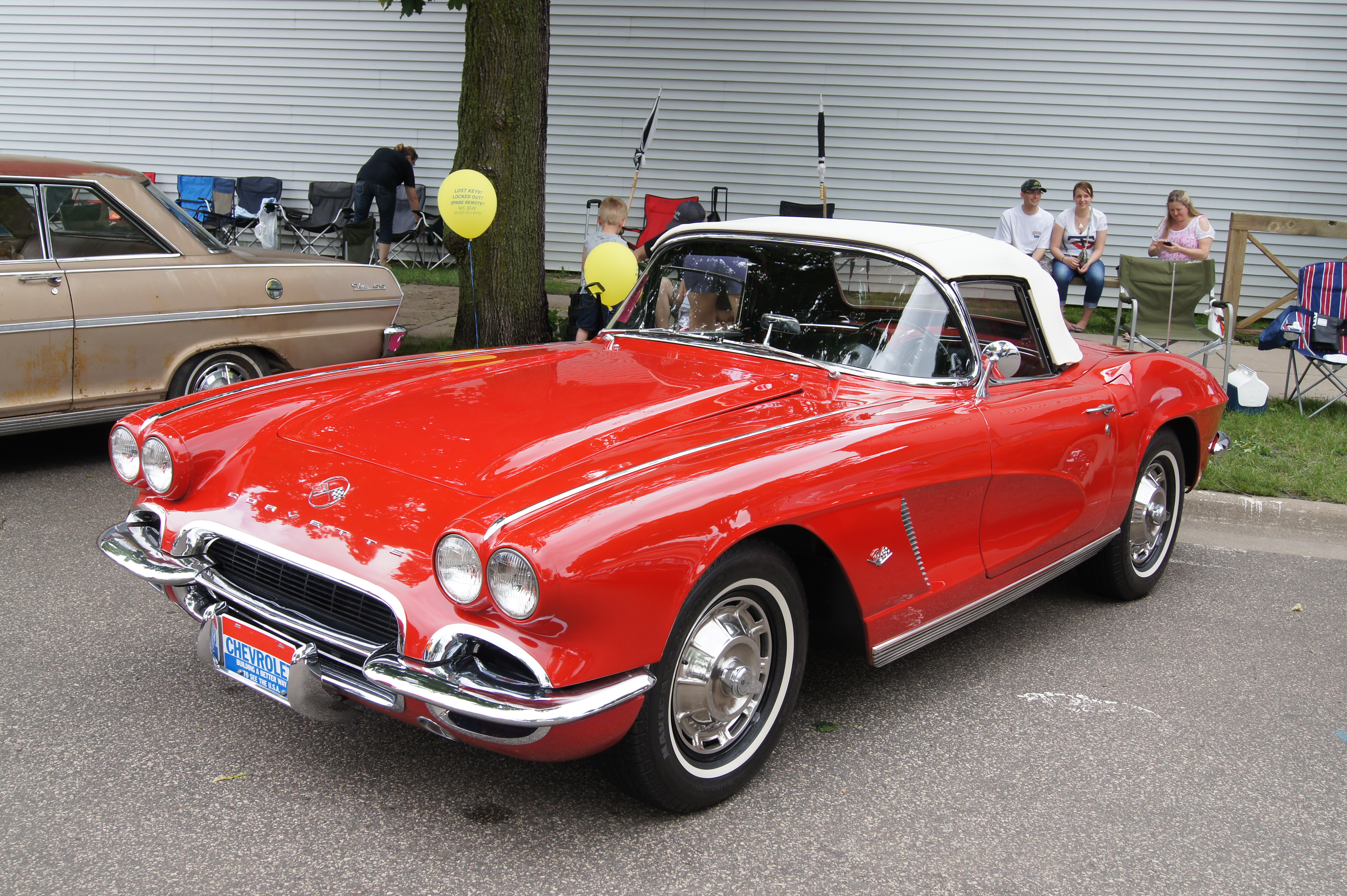 MSRA “BACK TO THE 50′s” 40th ANNIVERSARY June 21-23, 2013 State Fairgrounds St. Paul Minnesota More Car Pictures